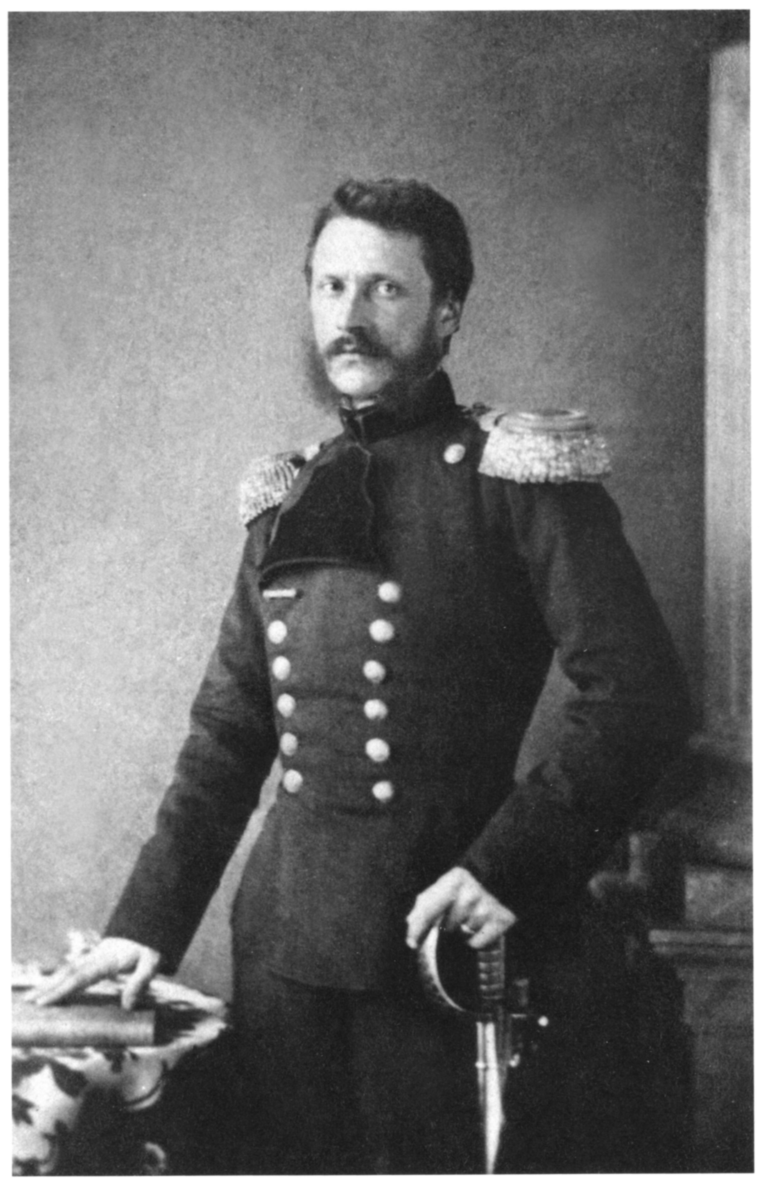 Photo of Alexandru Ioan Cuza, by Carol Popp de Szathmáry